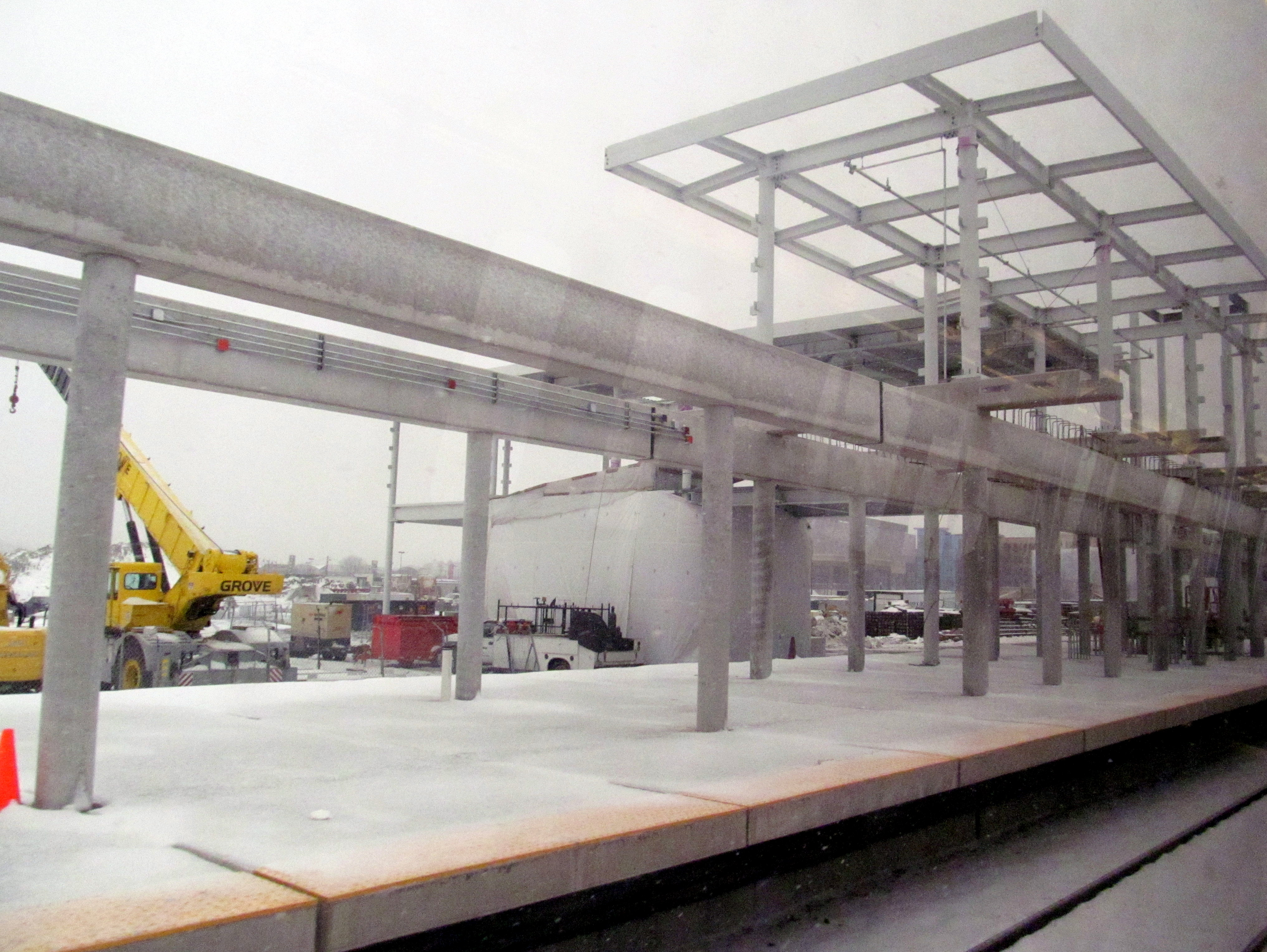 Construction of the platform and southern headhouse at Assembly Square in December 2013